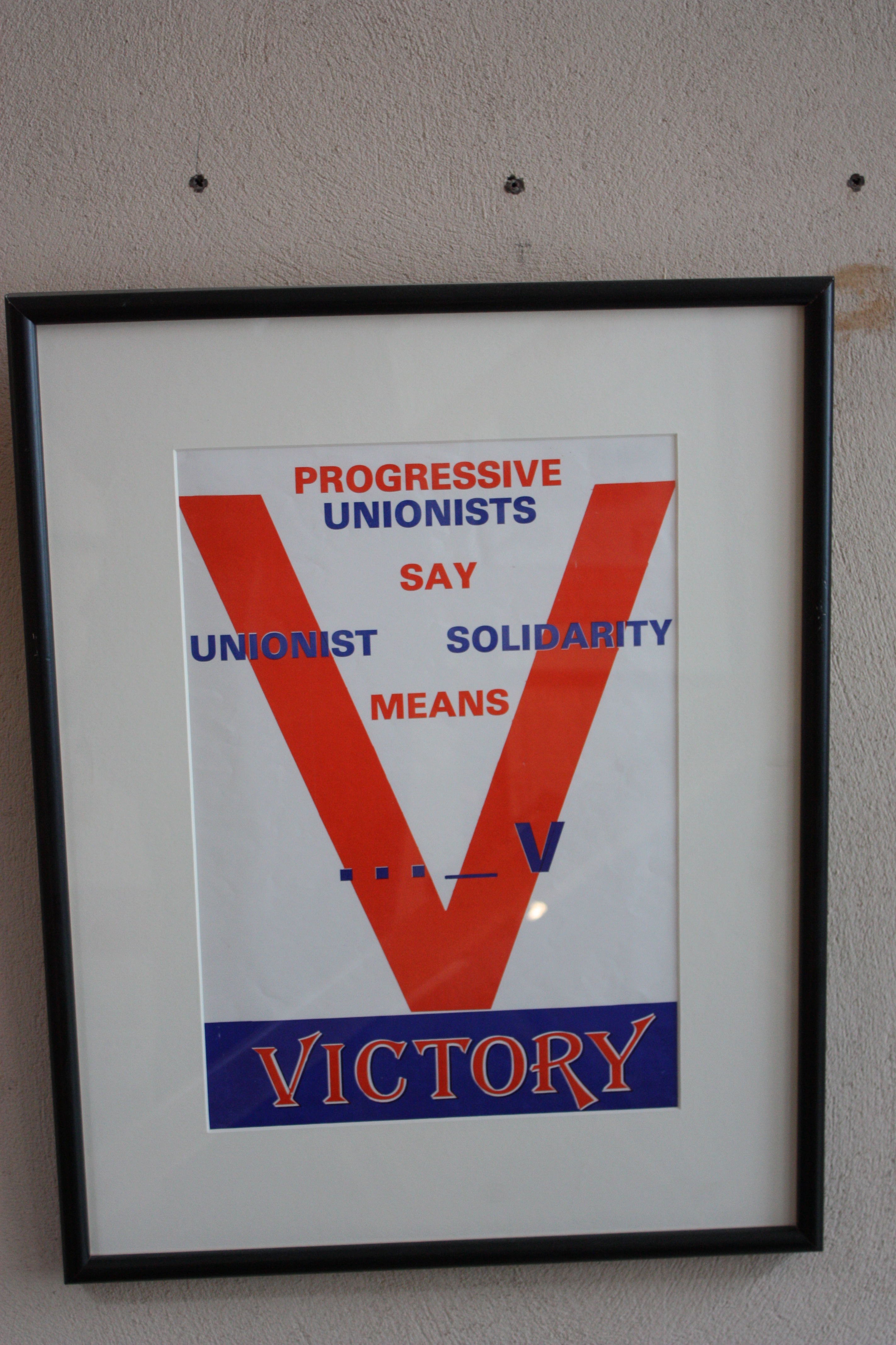 "Unionist Solidarity Means Victory" (Progressive Unionist Party, 1986), Troubled Images Exhibition, Linen Hall Library, Donegall Square North, Belfast, Northern Ireland, August 2010